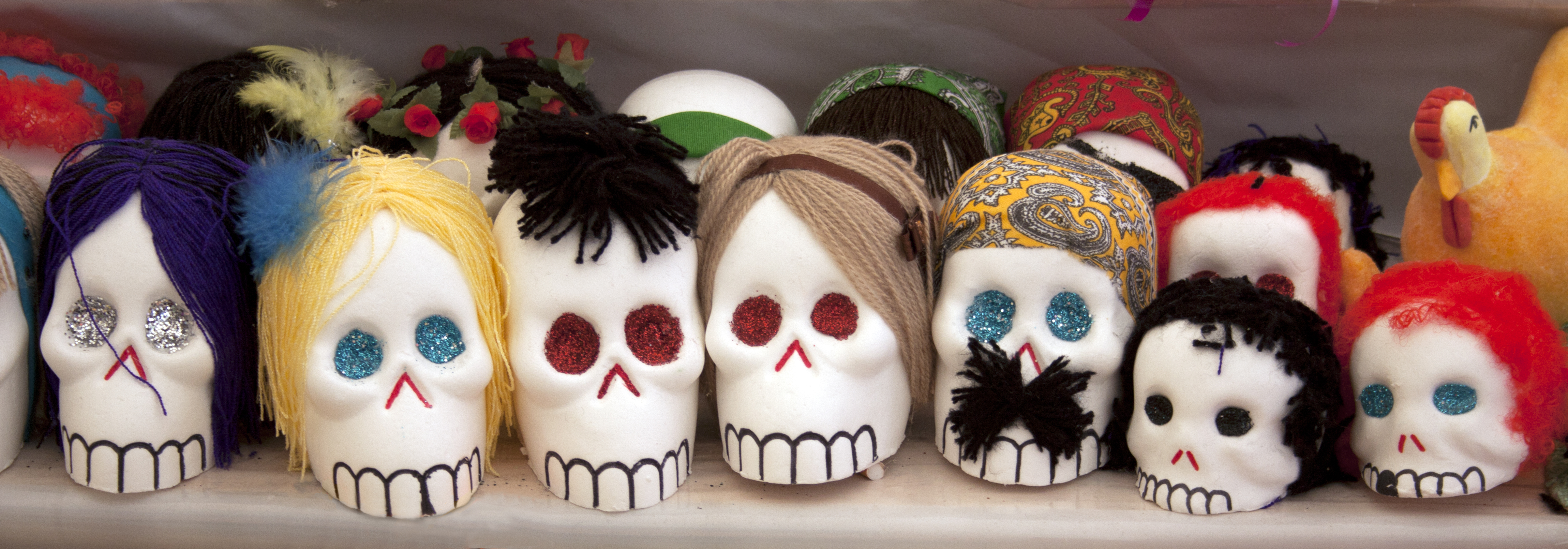 Alfeniques are sugar candy that allude to the day of the dead celebrations in Mexico. Photo taken in downtown plaza in Leon, Guanajuato, Mexico